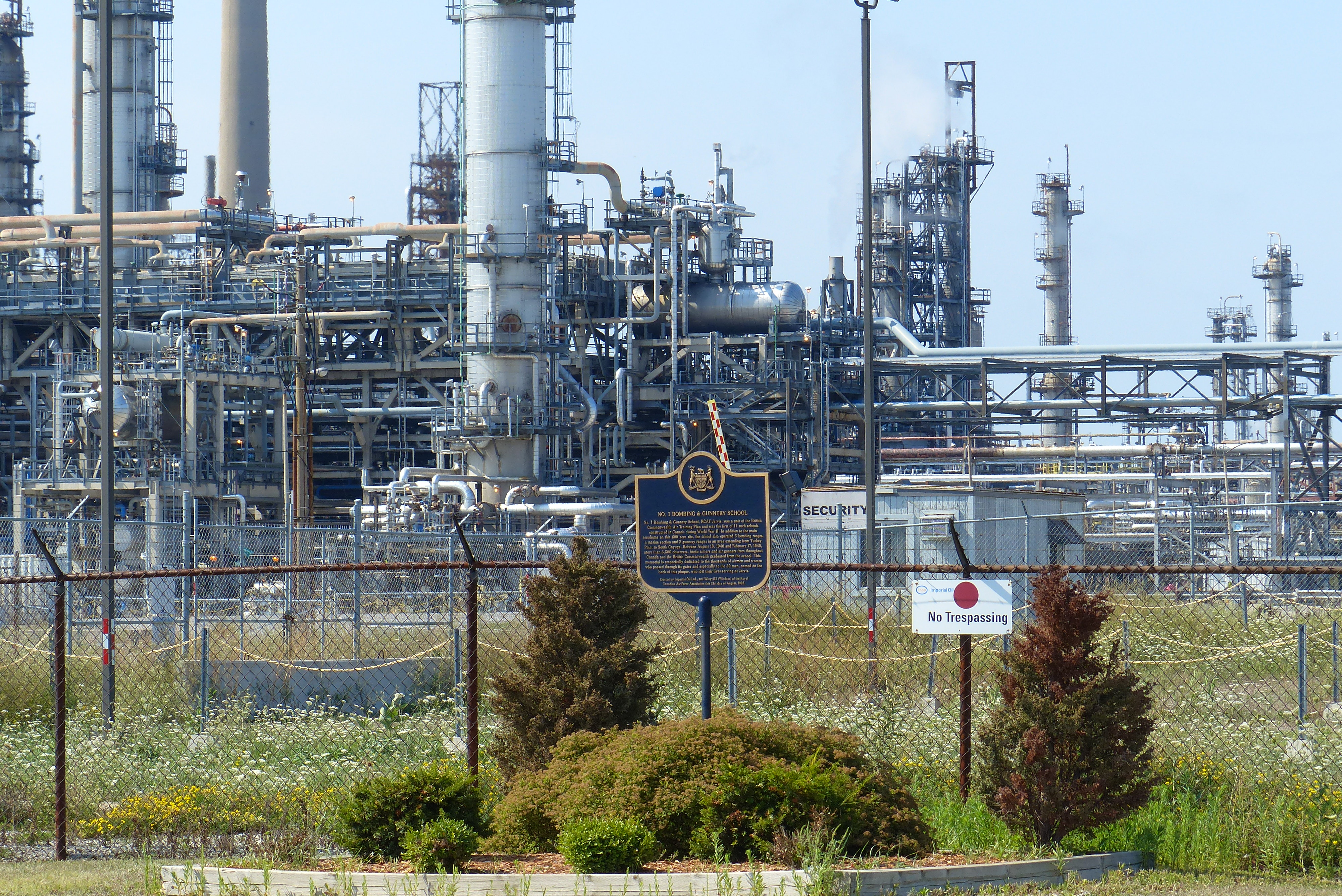 This is the site of No. 1 Bombing and Gunnery School near Jarvis, Ontario. The view is looking north towards the refinery. The hangar line ran parallel to the roadway, so the camera is pointed towards the centre of the airfield.